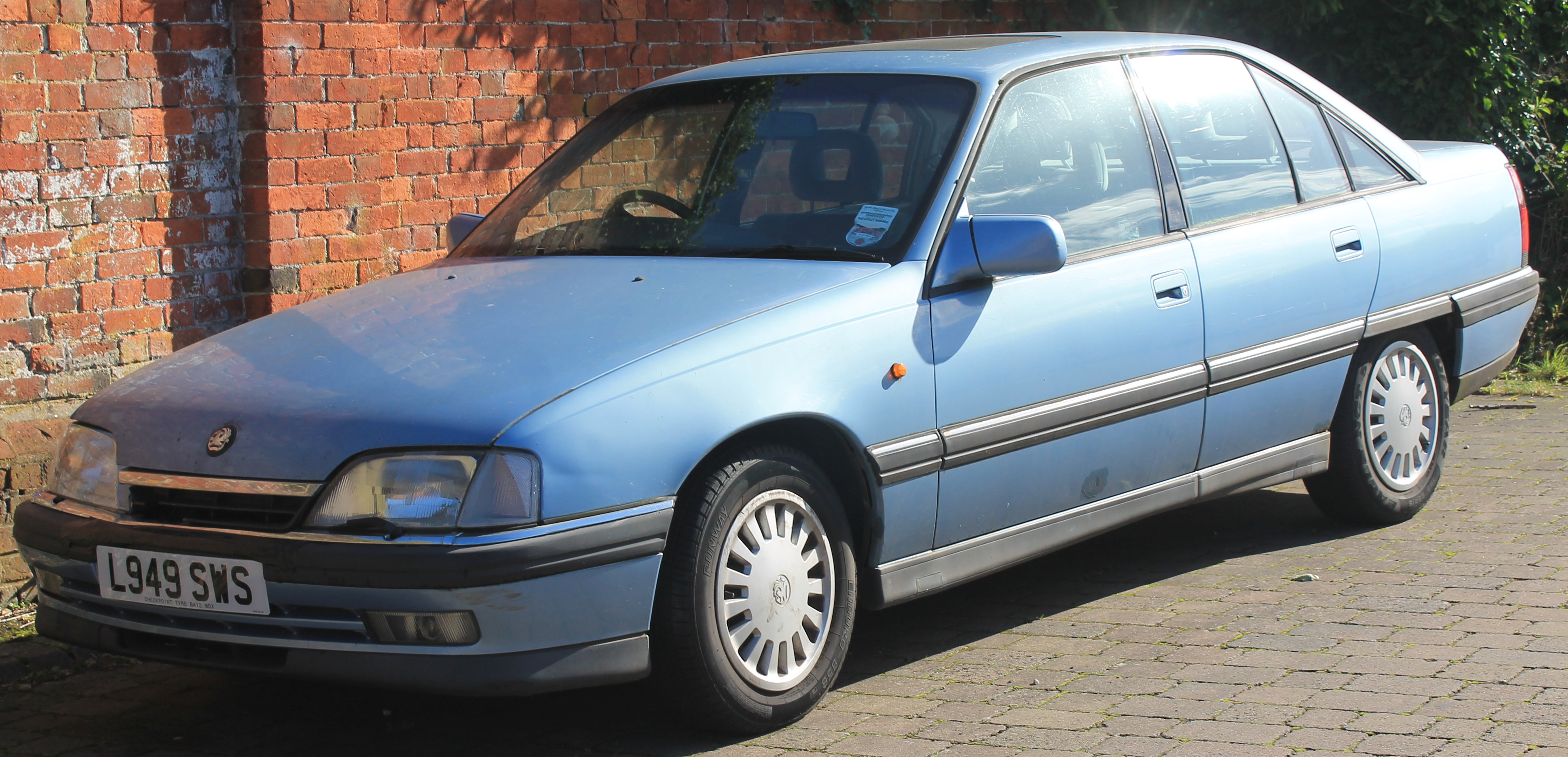 I really like these Vauxhall Carltons. Nowhere near enough around now! My neighbours in Cornwall used to own a J reg example in a slightly darker blue, and I used to ride around in it loads as a youngster! Very comfortable and fast too. This is a 1993 GL 2.0 model, and to me, it looks pretty original apart from the front number plate being replaced at some point. Nice that someone's kept this from the scrapyard, as there are only 54 of these left on the roads- a bit of a dying breed! The vehicle details for L949 SWS are: Date of Liability 01 09 2014 Date of First Registration 13 08 1993 Year of Manufacture 1993 Cylinder Capacity (cc) 1998cc CO₂ Emissions Not Available Fuel Type PETROL Export Marker N Vehicle Status Licence Not Due Vehicle Colour BLUE Vehicle Type Approval Not Available Vehicle Excise Duty rate for vehicle 6 Months Rate £123.75 12 Months Rate £225.00 This is probably an ex. Hertz rental car.Thanks to Trackyman for the information